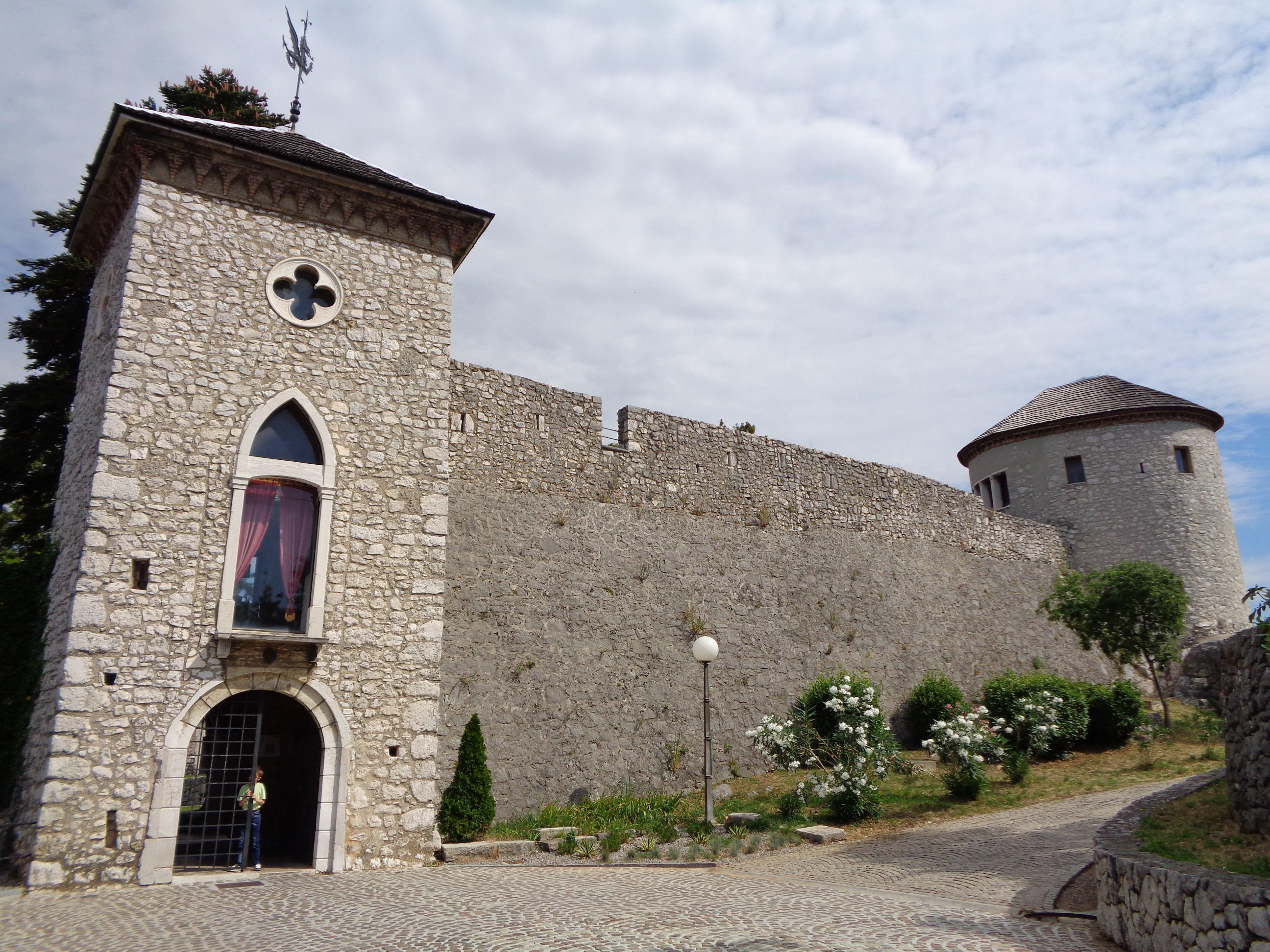 Trsat Castle in Rijeka, Primorje-Gorski Kotar County, western Croatia - southern walls with entrance tower